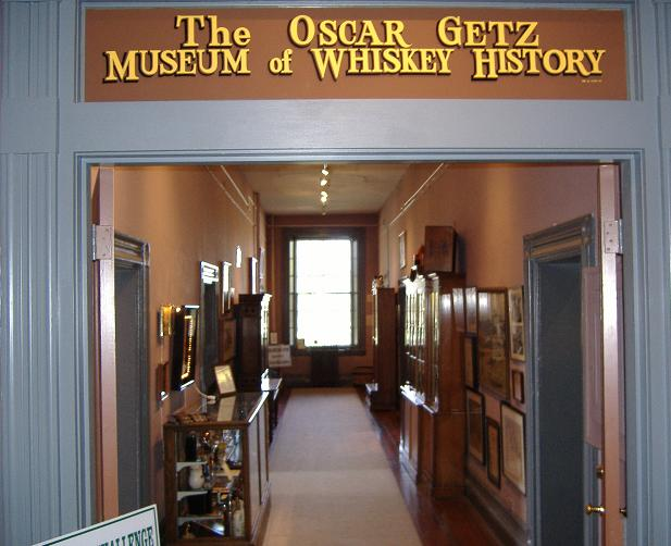 Oscar Getz Museum of Whiskey, within Spalding Hall, in Bardstown, Kentucky.